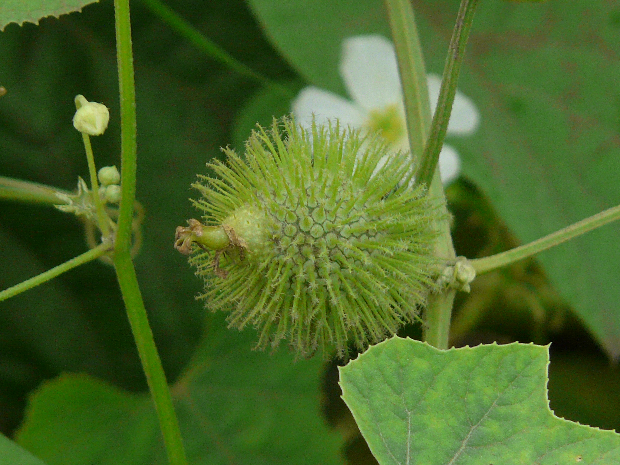 Cucurbitaceae (pumpkin, or gourd family) » Luffa echinata LUF-fuh -- from the Arabic word lufah or lufa ek-in-AY-tuh -- meaning, prickly commonly known as: bitter luffa, bristly luffa, rag gourd • Bengali: deyatada • Hindi: बिन्दाल bindaal, घागरबेल ghagarbel, ककोड़ा kakora • Kannada: ದೈವದಾಳಿ daivadaali • Marathi: देवदाली devadali, देवडांगरी devadangari • Sanskrit: जीमूतः jimuta • Tamil: பேய்ப்பீர்க்கு pey-p-pirkku • Telugu: panibira • Urdu: بندال bindaal Native to: northern tropical Africa, Pakistan, India, Bangladesh References: eFlora • IMPGC • ENVIS - FRLHT • DDSA